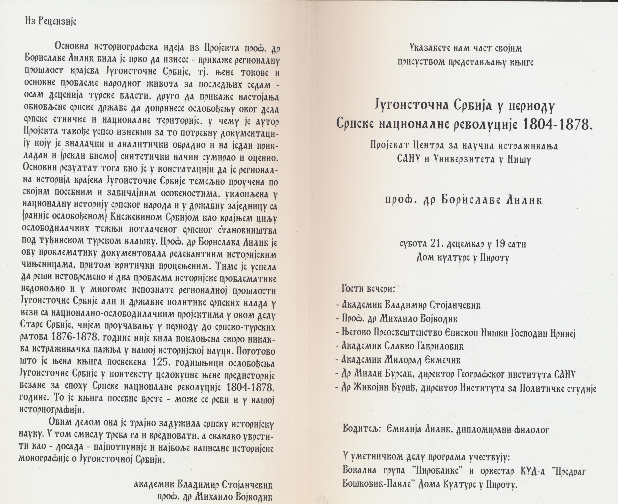 Invitation to present the book by Borislav Lilic in 2002 in Pirot